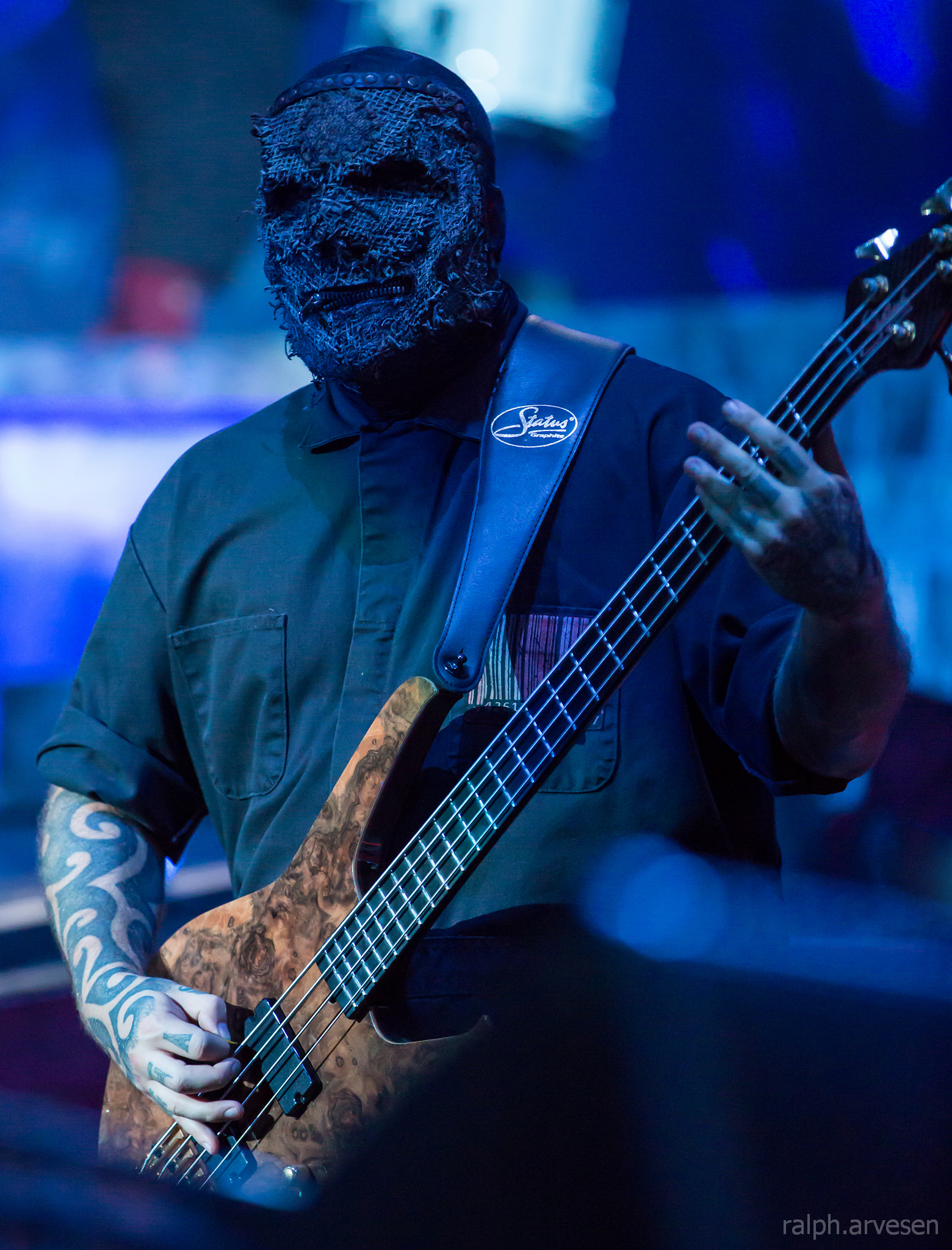 Slipknot's bassist Alessandro Venturella performing live in Austin, Texas.